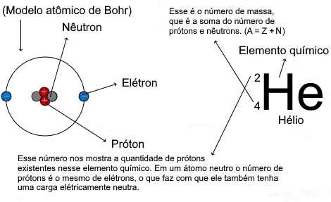 Translation of "Atomic_number_depiction.jpg" in Portuguese - Brazilian